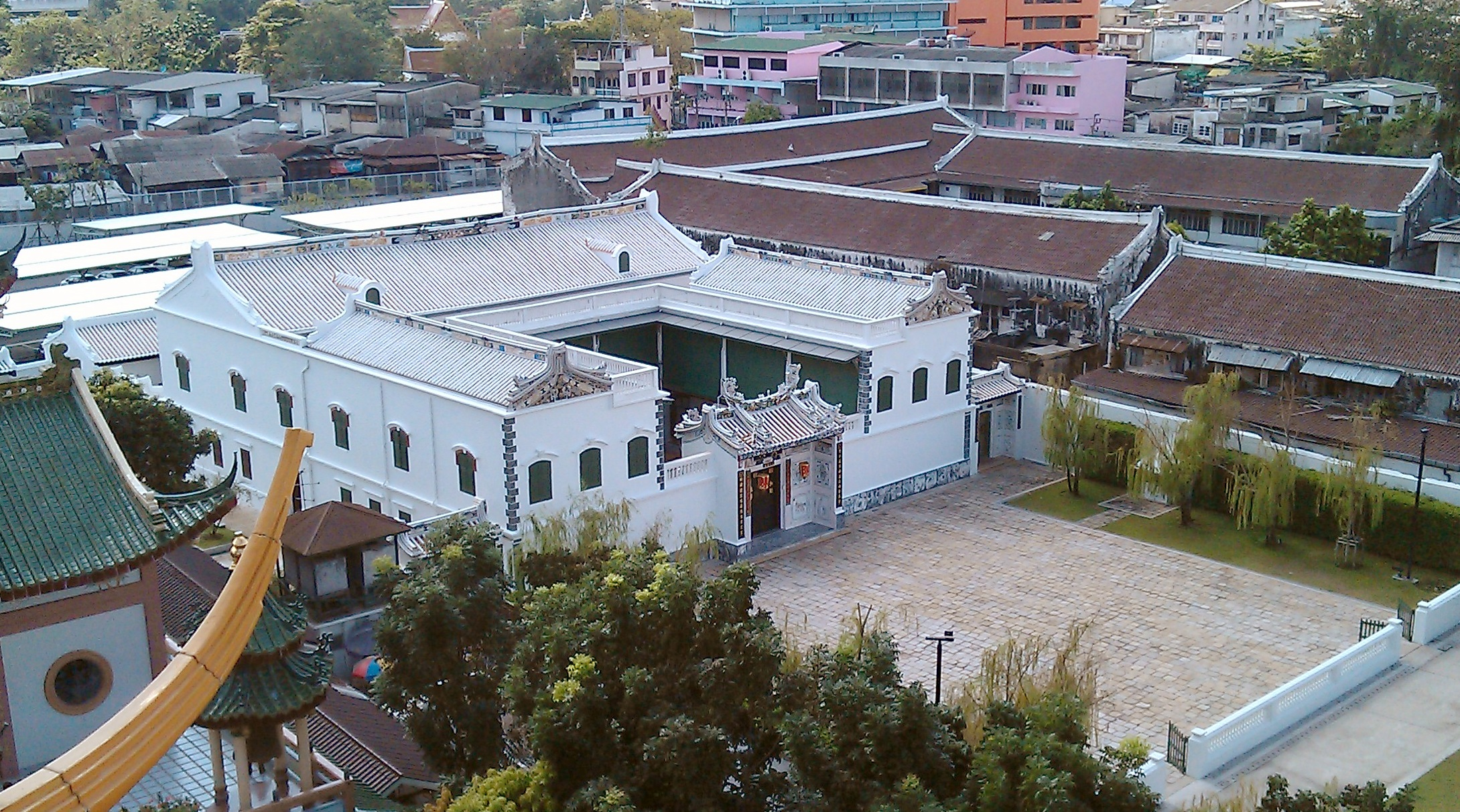 Wanglee House, viewed from the pagoda at Chee Chin Khor Society